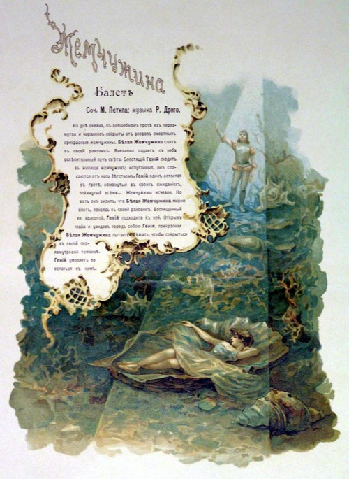 Page from the theatre program for a gala performance held at the Moscow Imperial Bolshoi Theatre in honor of the coronation of Tsar Nicholas II and Empress Alexandra Fyodorovna. 29 May [O.S. 17 May] 1896.